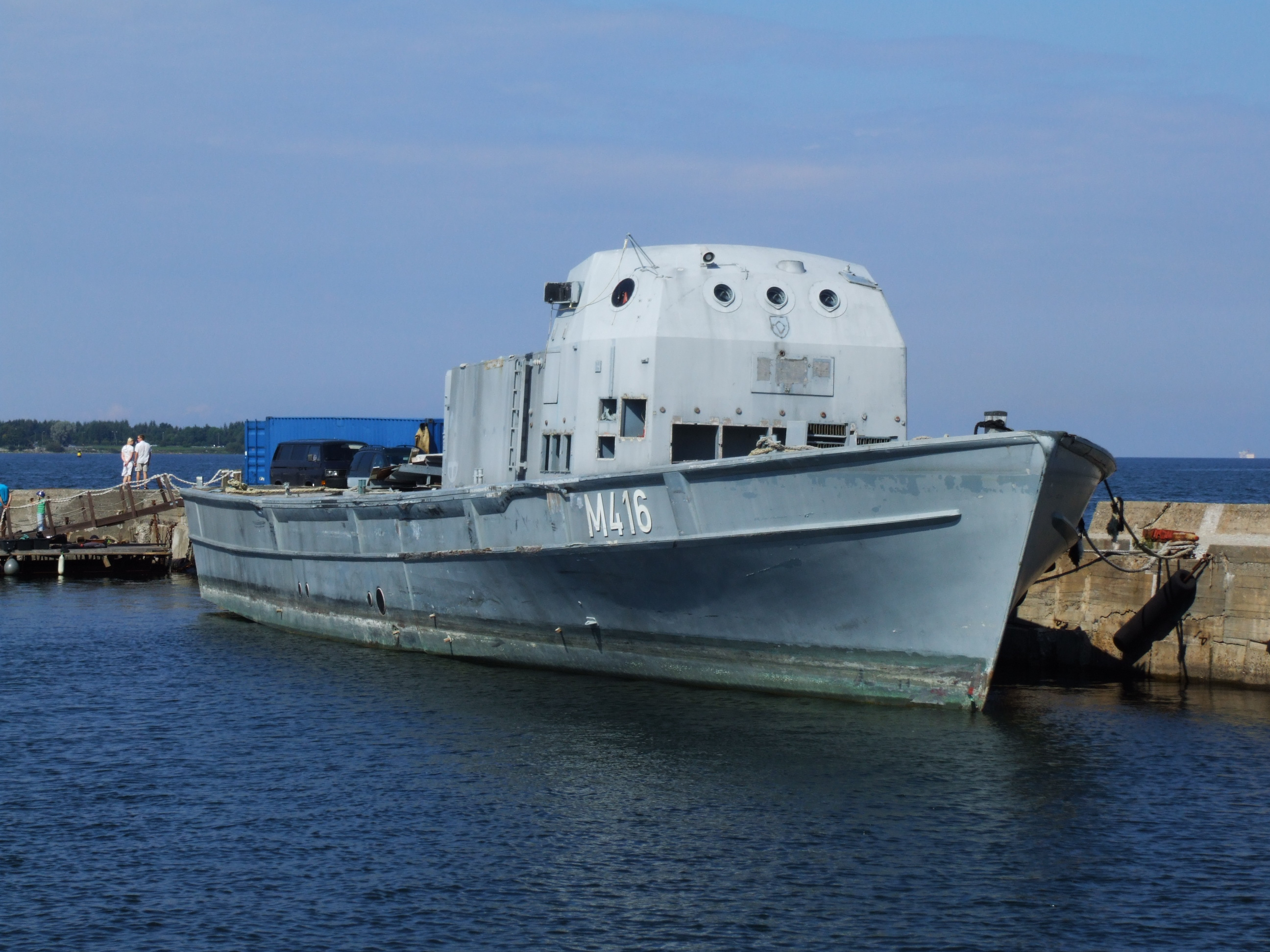 Minesweeper M416 Vaindlo, formerly Estonian Navy, now in museum in Tallinn